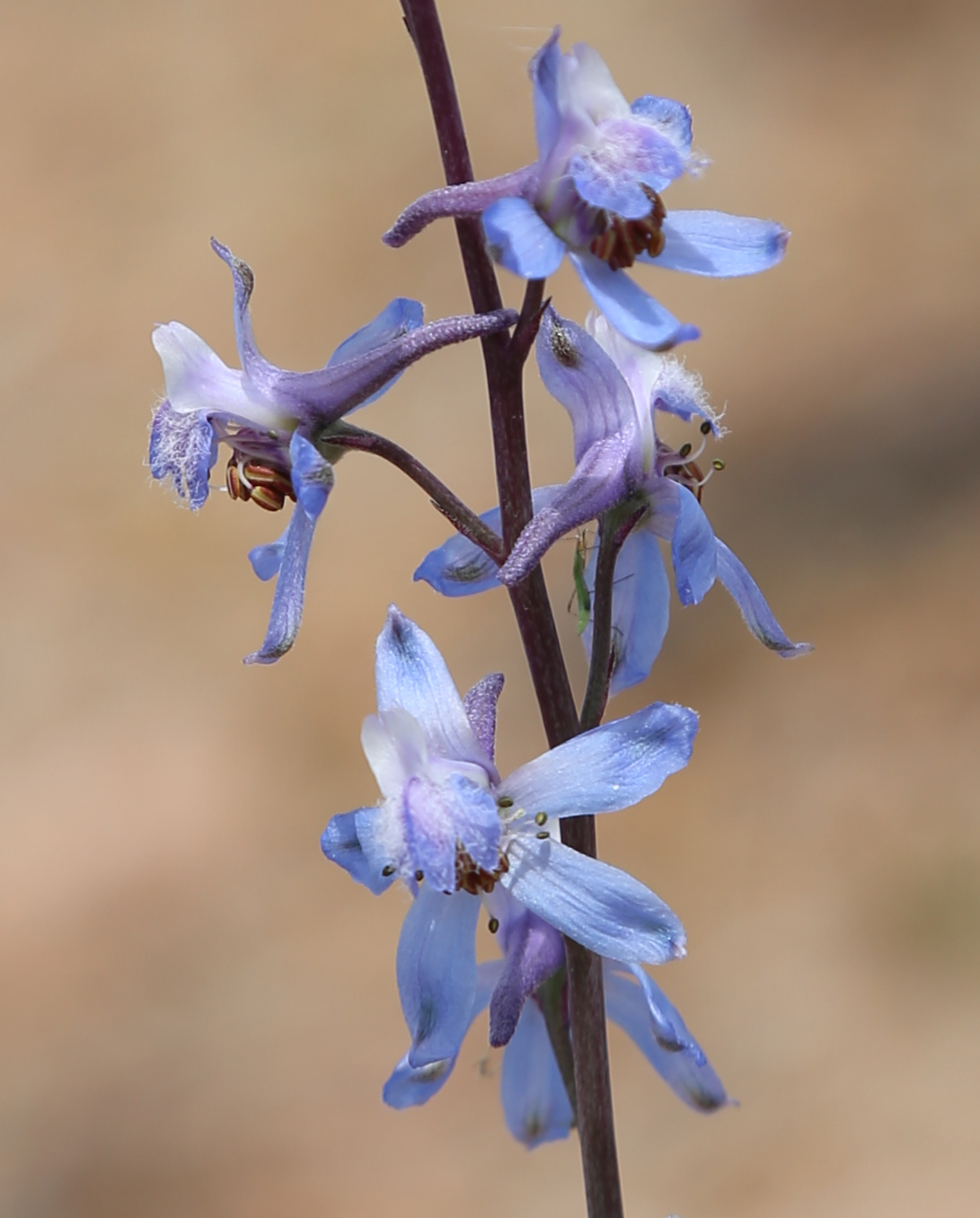 Desert larkspur (Delphinium parishii), closeup of multi-hued blue flowers, showing the 5 sepals slightly curved back, the long purplish nectar spur, and the true flower with upper petals white, lower petals blue and fuzzy, and reproductive parts inside. At about 5,500 ft (1,700 m) in desert scrub, between Paradise and wall Meadows, Mono County, California, in the Eastern Sierra.